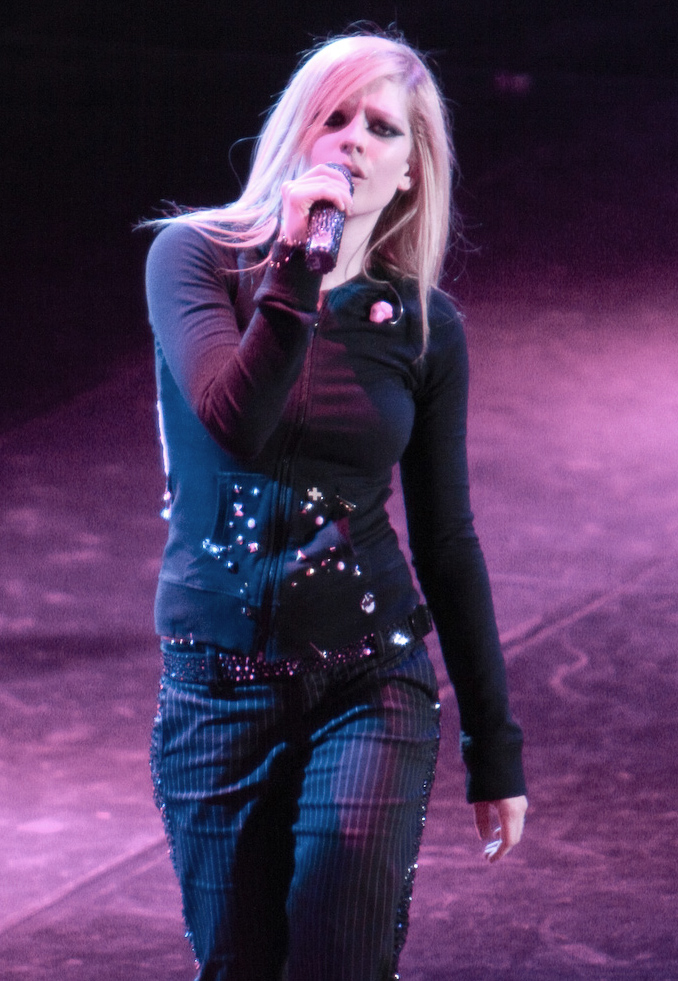 Avril Lavigne "The Best Damn Tour", Beijing Wukesong Arena, October 2008